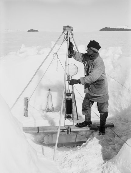 Edward W. Nelson (1883 - 1923), British biologist and member of Robert Falcon Scott's Antarctic expedition of 1910-1913, the Terra Nova Expedition.